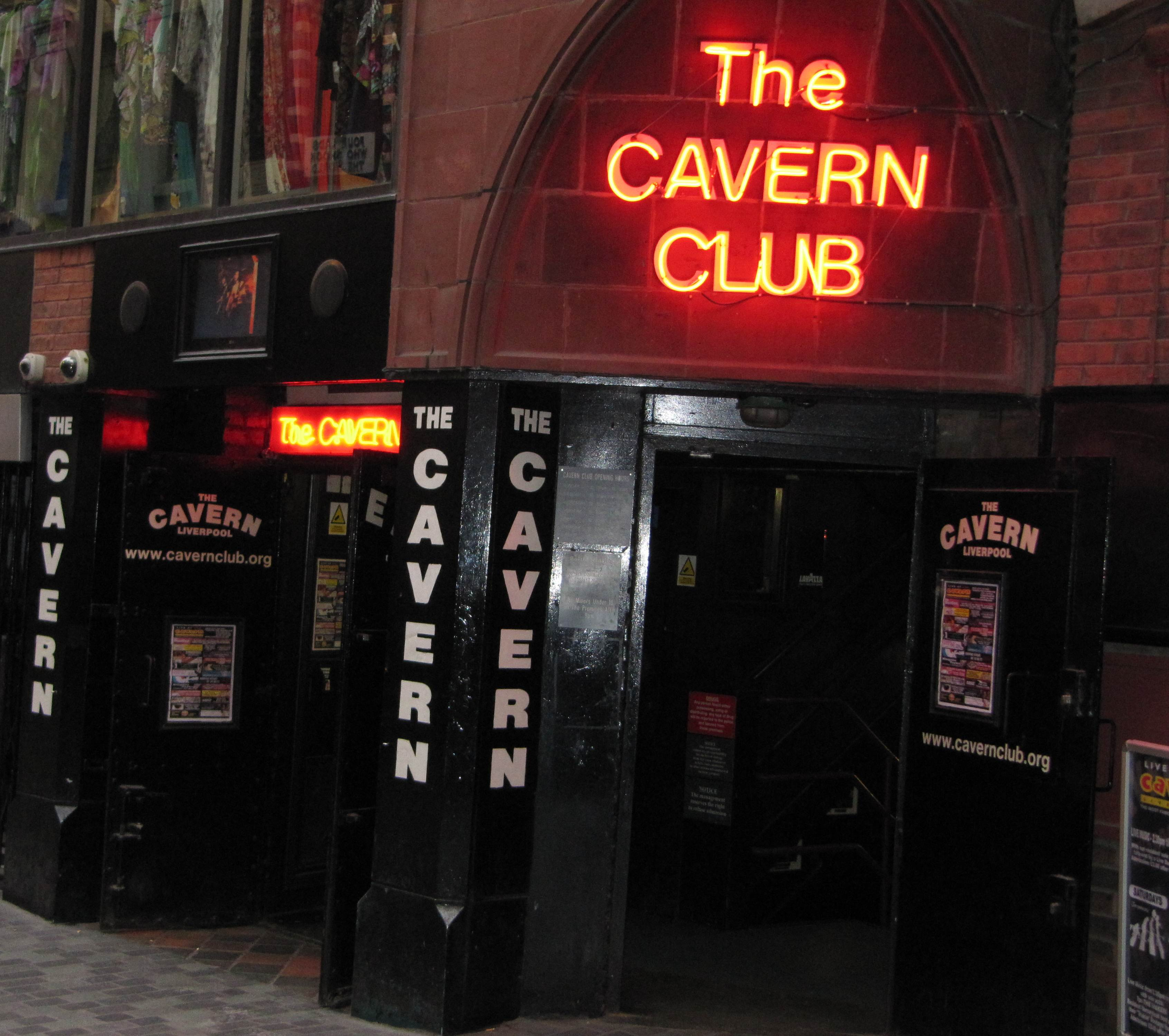 Cavern Club Liverpool